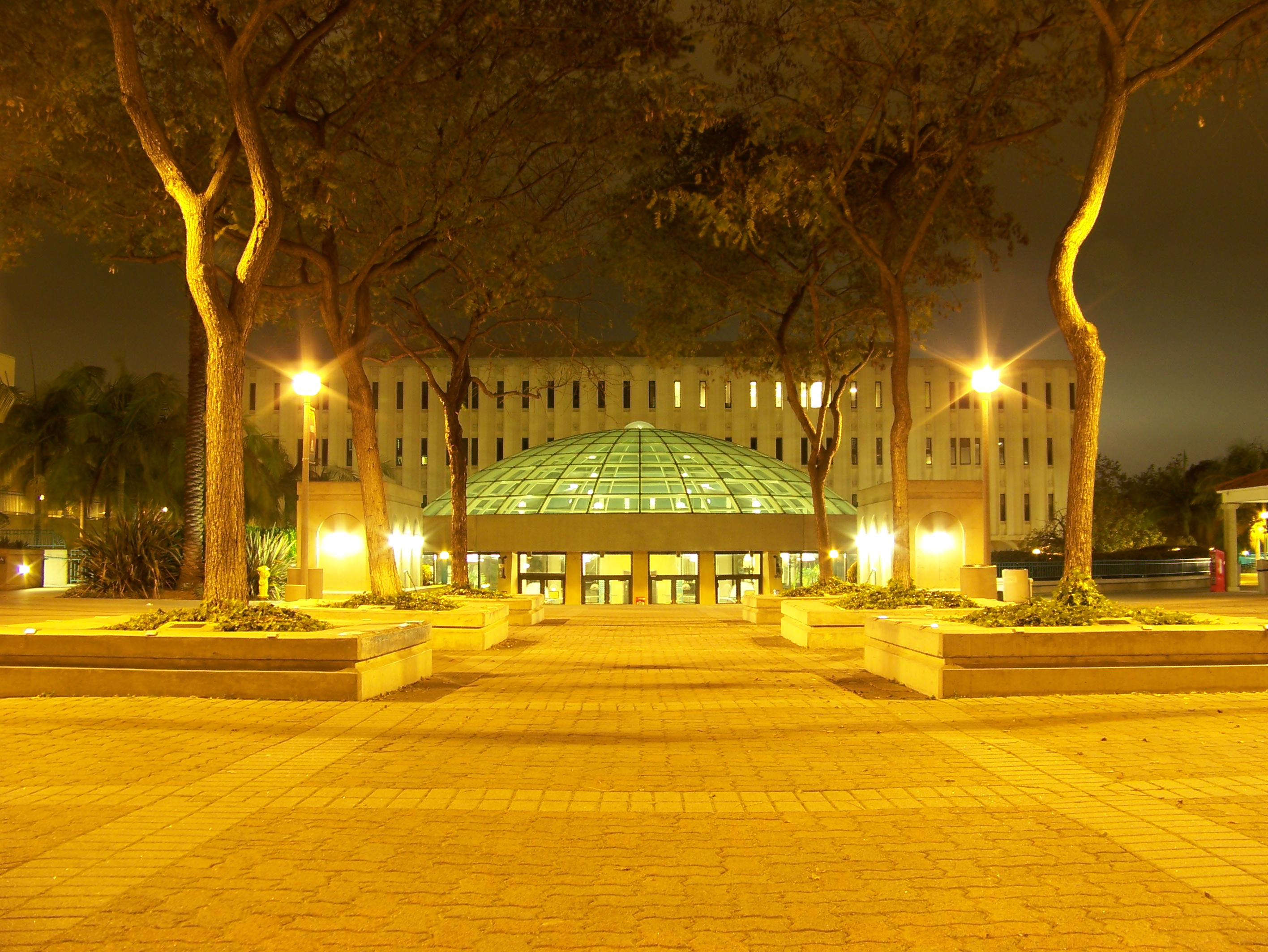 Love Library at San Diego State University in San Diego, California.